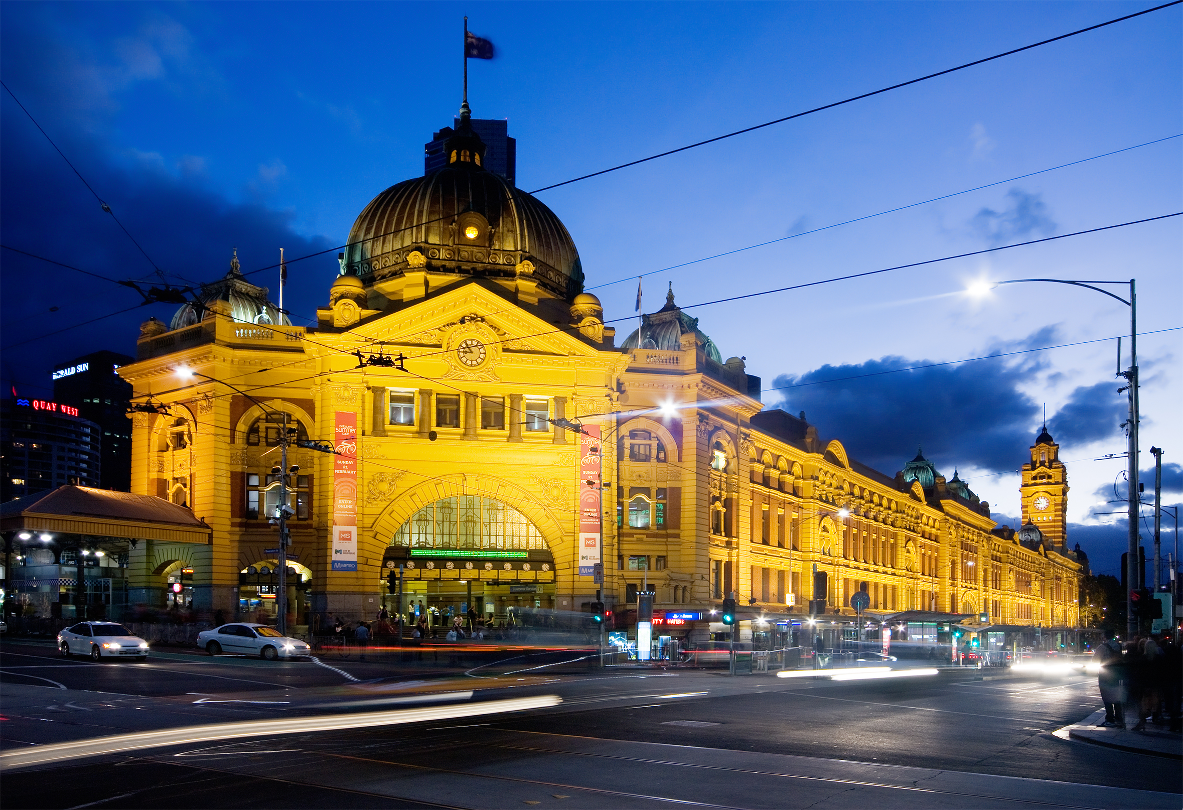 Flinders Street Station, Melbourne, Victoria,. Australia